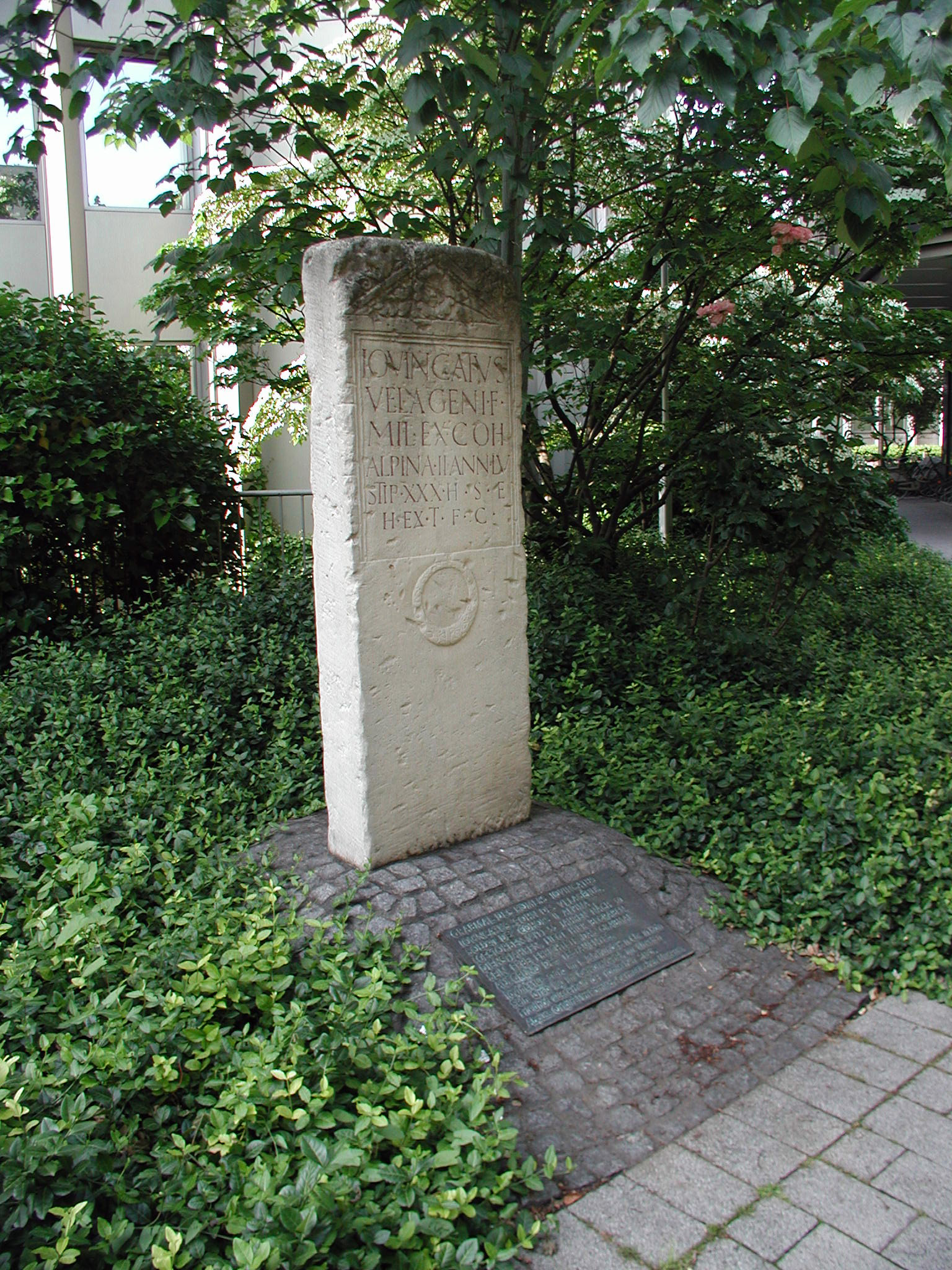 Cologne, roman tomb of Iovincatus